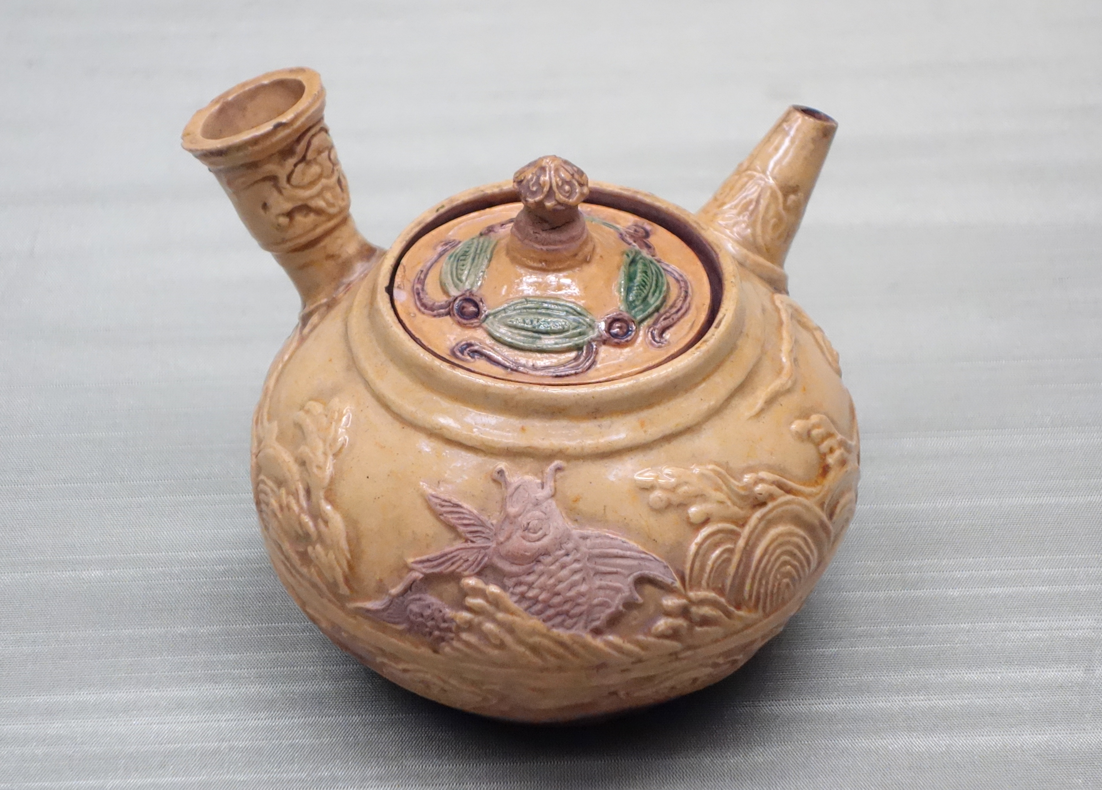 Exhibit in the Tokyo National Museum, Tokyo, Japan. This artwork is old enough so that it is in the public domain.